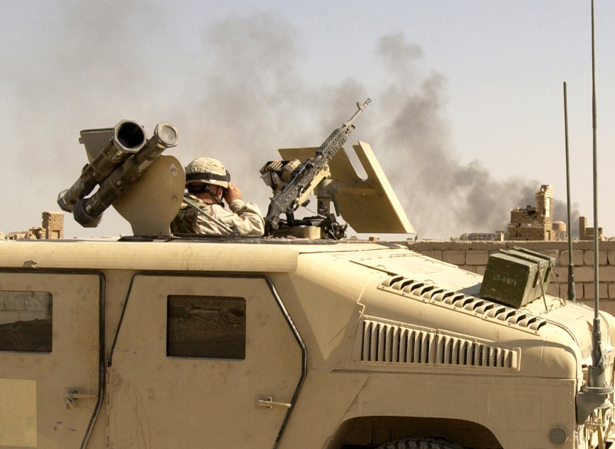 A Soldier looks through binoculars at smoke rising near the An Najaf cemetery in Iraq. The Soldier is assigned to the 1st Cavalry Division's Company A, 2nd Battalion, 12th Cavalry Regiment. Soldiers and Marines, along with Iraqi National Guard troops, are fighting anti-Iraqi forces in Najaf.